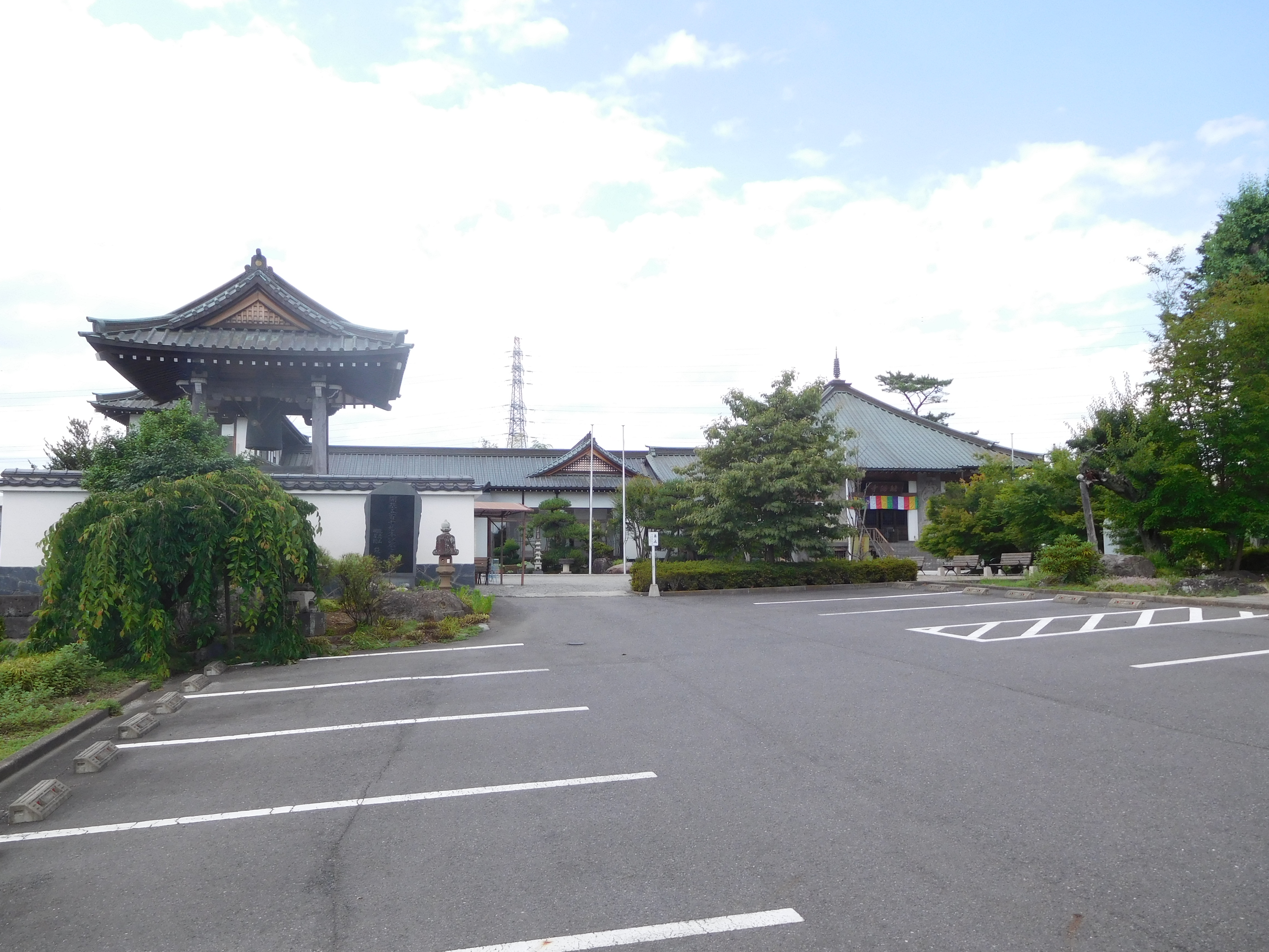 This is Noman-ji Temple in Utsunomiya, Tochigi, Japan.